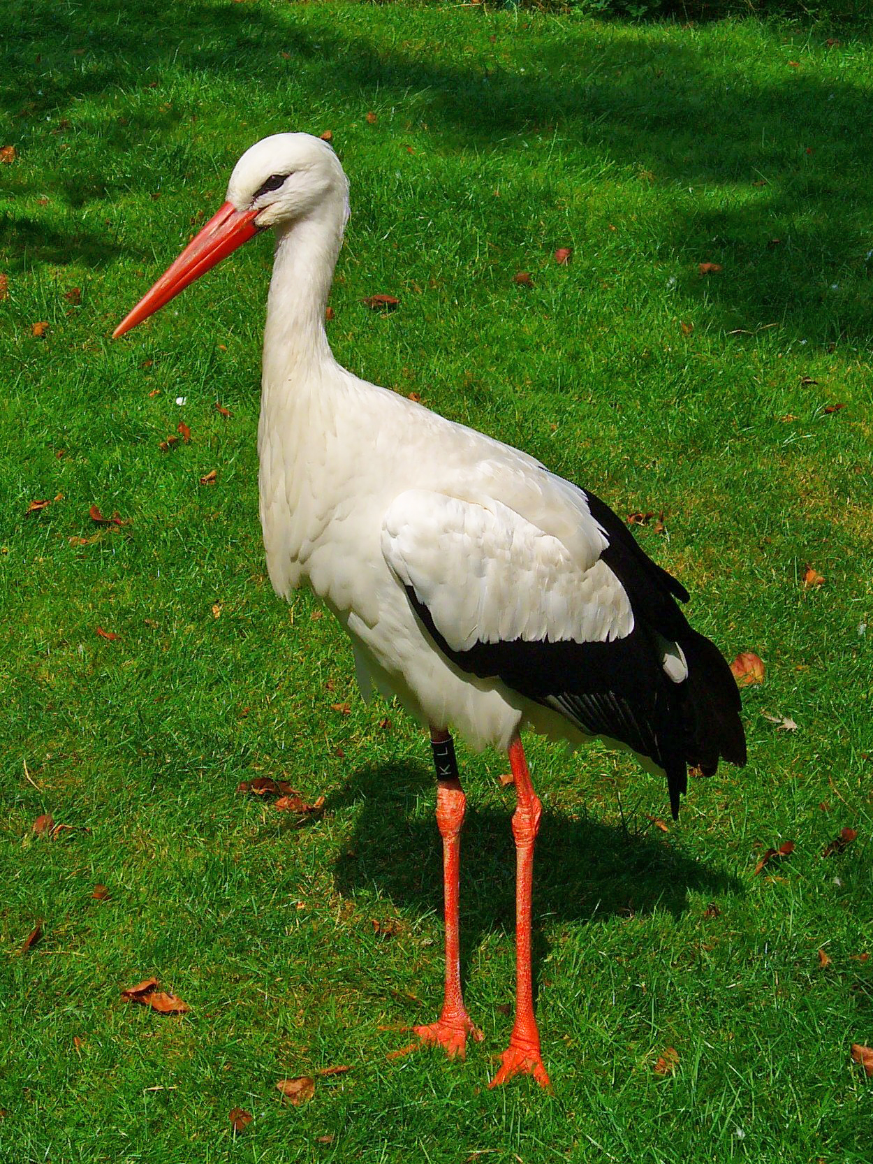 Ciconia ciconia, Ciconiidae, White stork; Zoo Karlsruhe, Germany. The flight muscle is used in homeopathy as remedy: Ciconia ciconia (Cicon-c.)